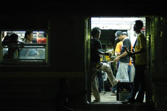 Music performed on a train all the way from Jakarta to Bogor.